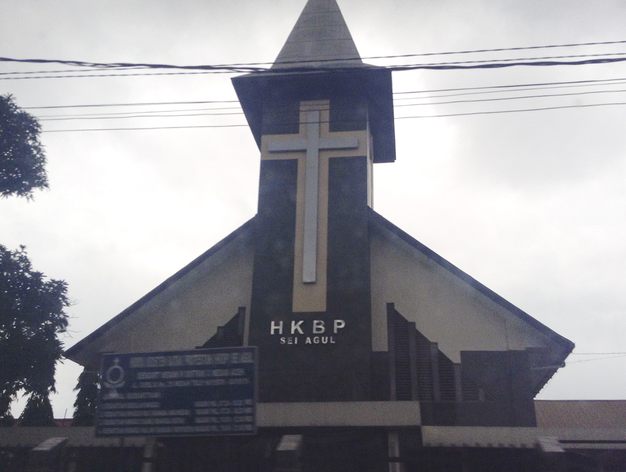 HKBP Sei Agul, church in Sei Agul, Medan Barat, Medan